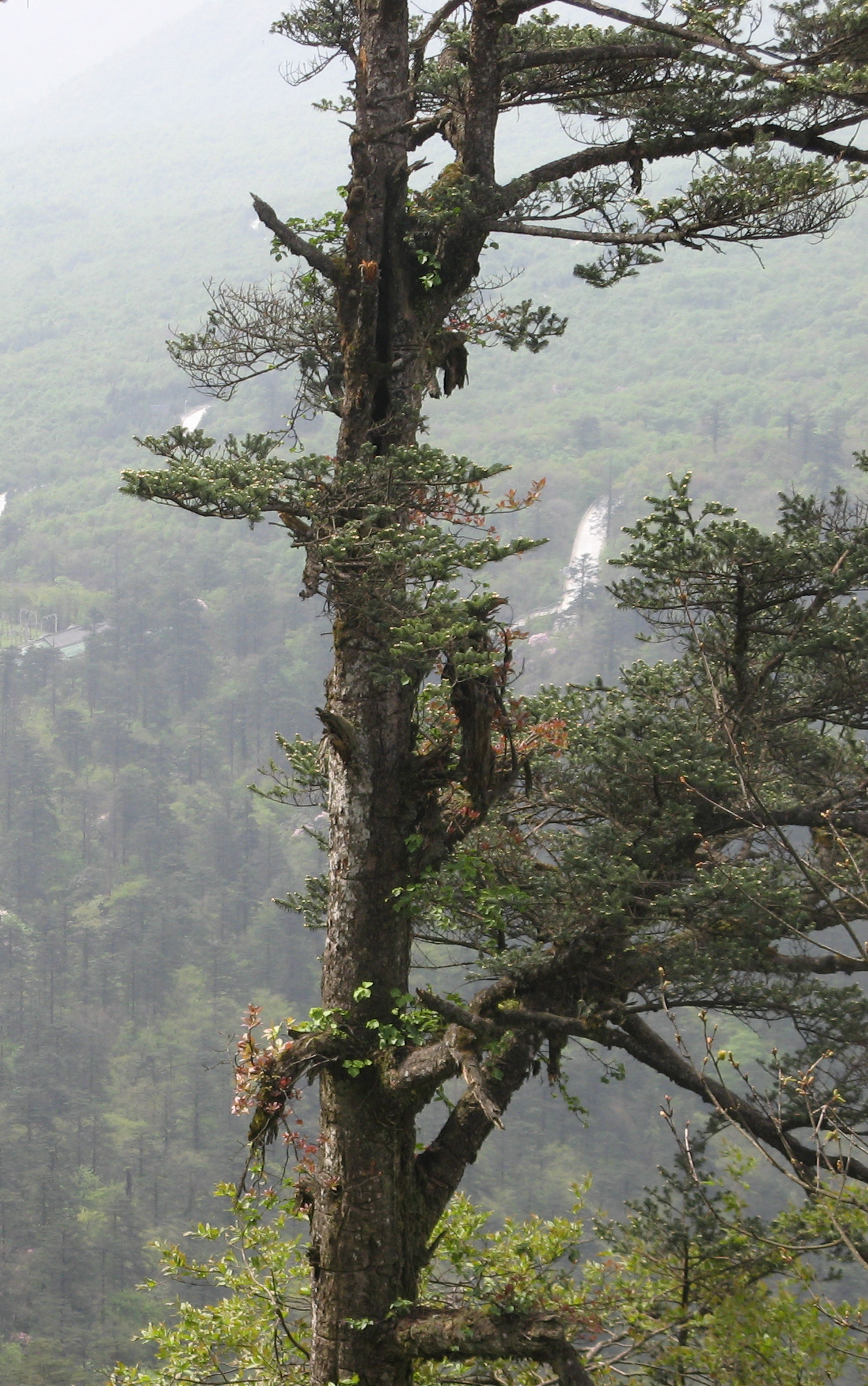 Abies fabri trunk and branches, Emei Shan, Sichuan, China